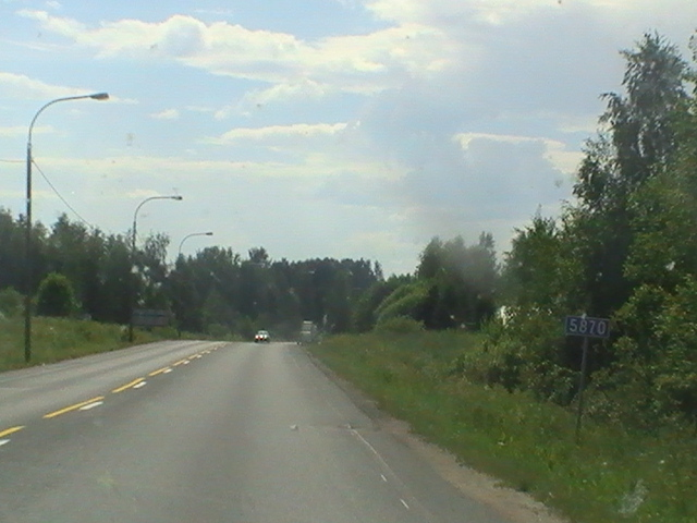 Finnish connecting road 5870 at Iisalmi, Finland. The road runs between Finnish national road 27 and the crossroad of Tervakankaantie and Parkatintie.